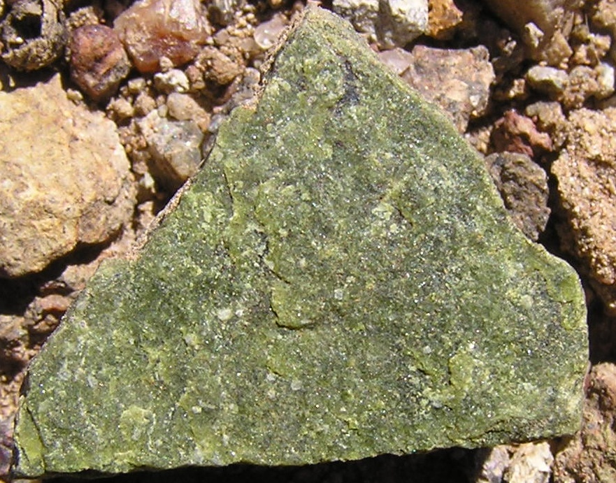 Deakin Volcanics Green rhyodacite from Tuggeranong Hill near Theodore